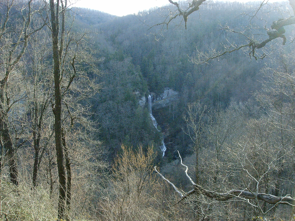 View from the overlook towards Raven Cliff Falls in Caesar's Head State Park in northern South Carolina